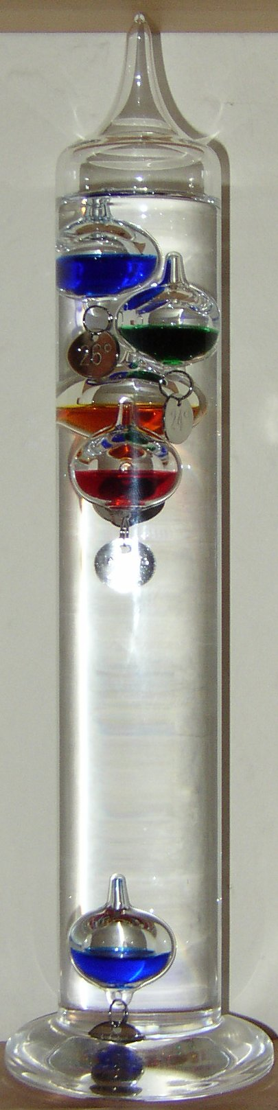 Galilei thermometer, my pic, from HuWiki. (Got a bit too much flash but no sun today, and I need the pic. To be reuploaded when the sun shines.)